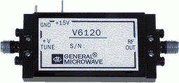 A General Microwave microwave broadband (12-18 GHz) Voltage Controlled Oscillator